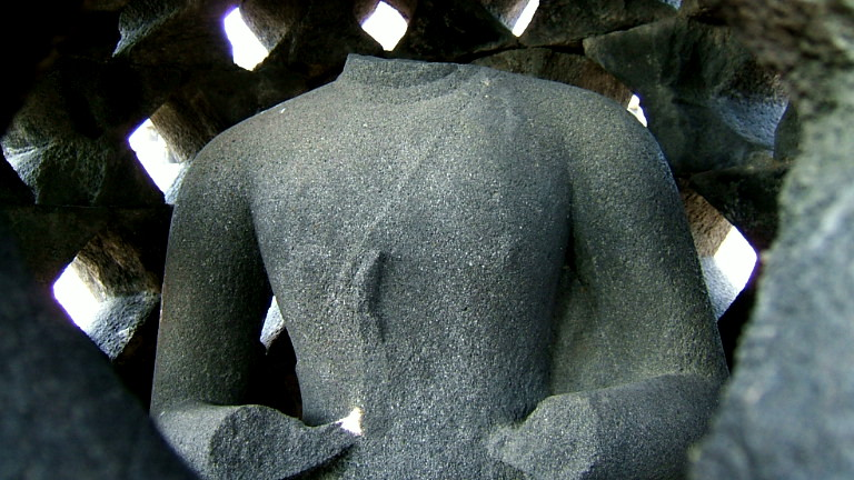 Headless Buddha statue at Borobudur.